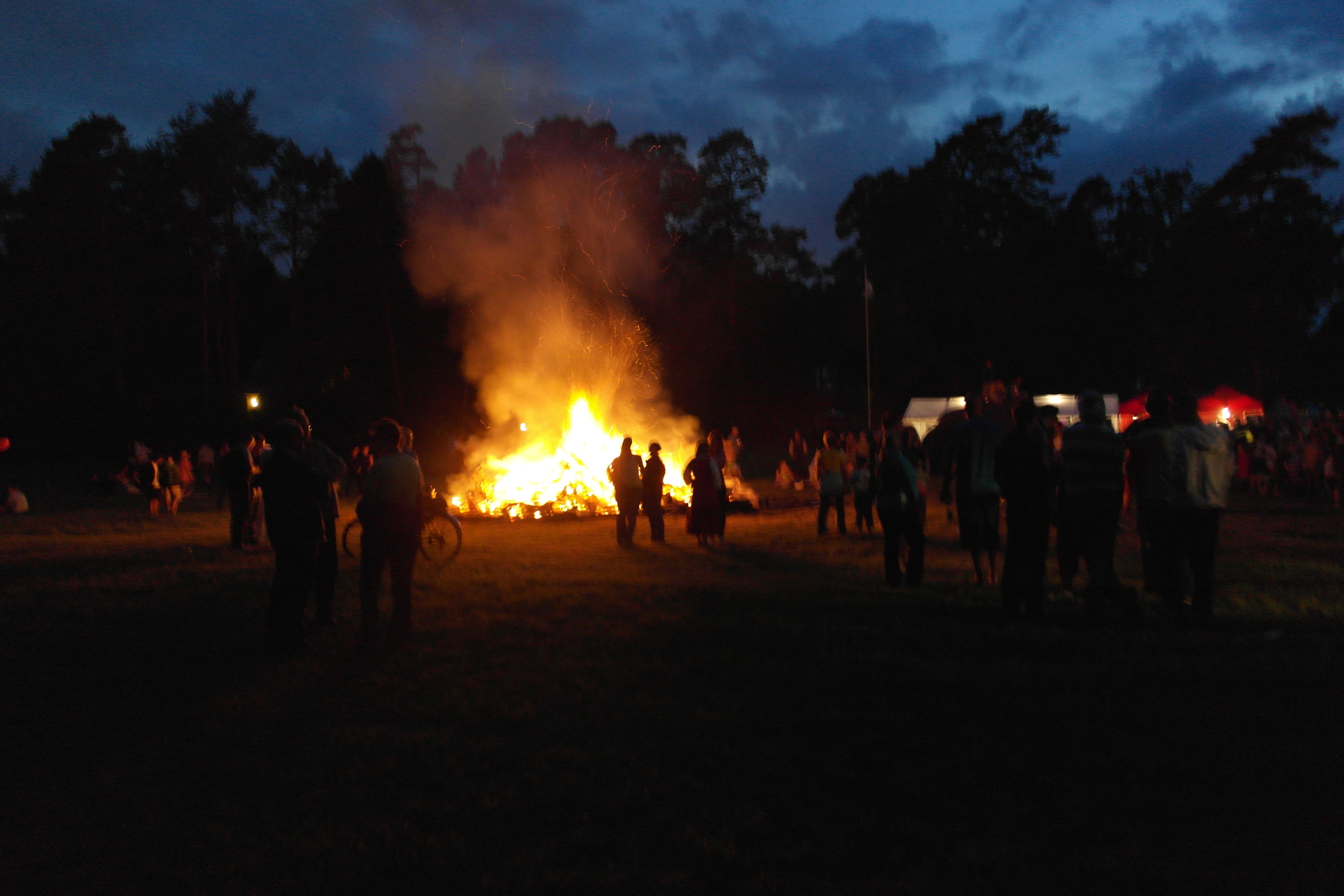 Aruküla bonfire party 2013